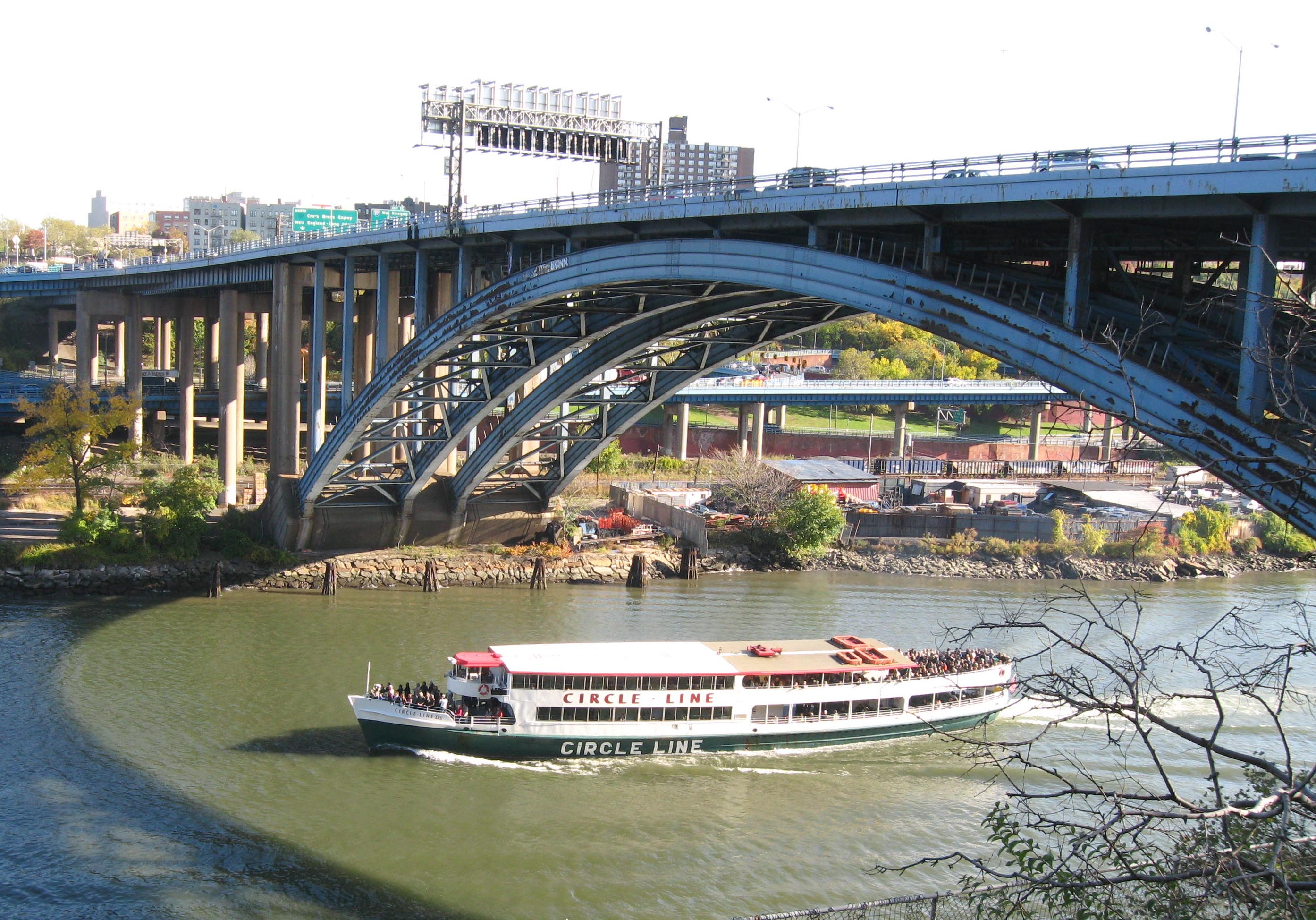 Looking southeast and down from halfway up the cliff in Highbridge Park, at Circle Line boat passing under Alexander Hamilton Bridge on a sunny midday.